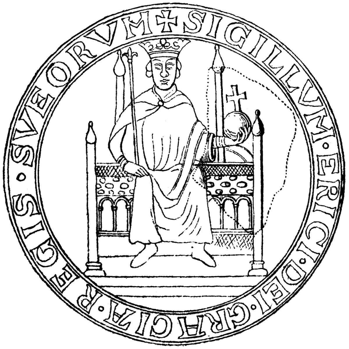 King Erik Eriksson's of Sweden seal